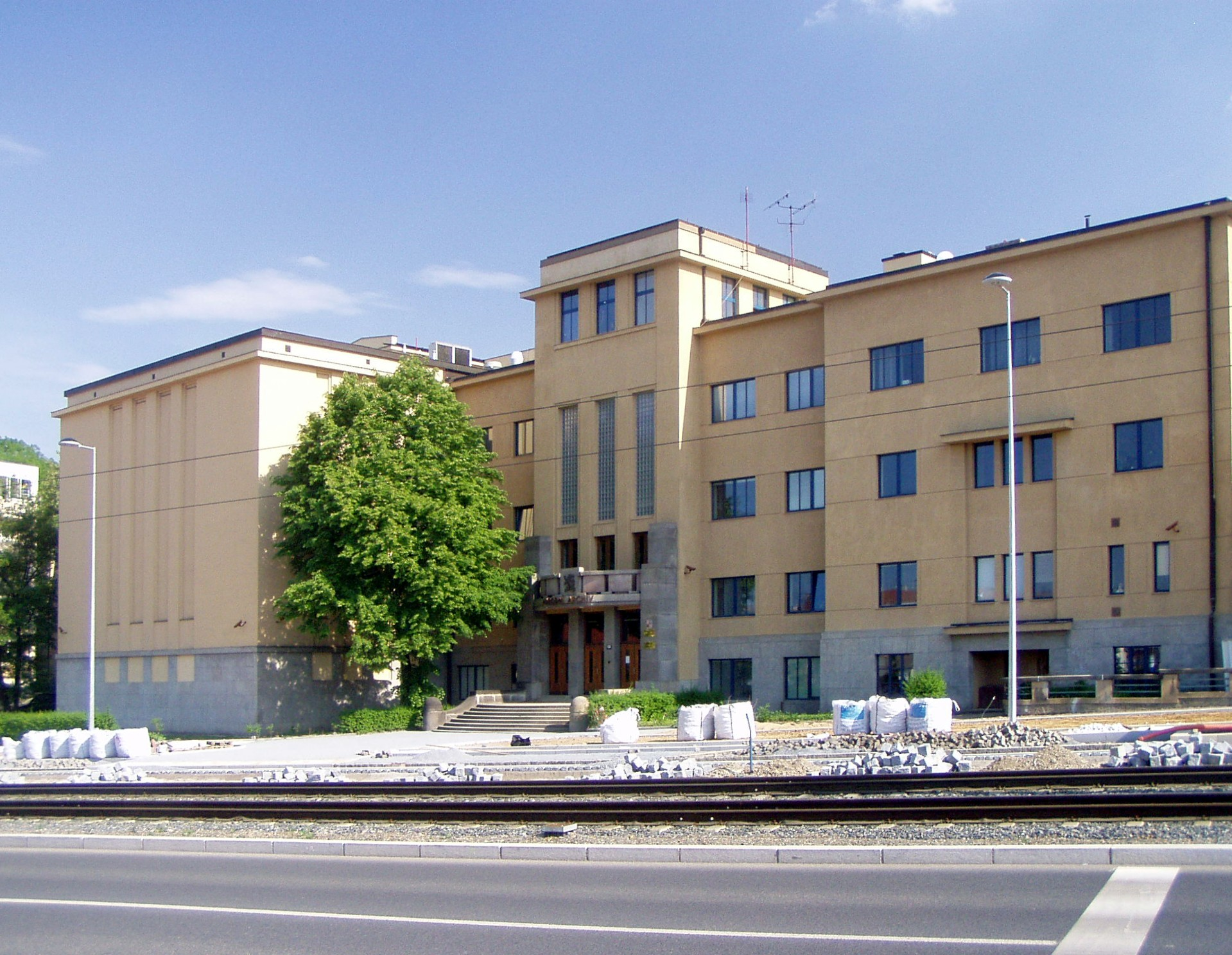 Building of 1st department of Czech National Archives on street Milady Horákové (originaly Country Archives in Prague form 1930s).